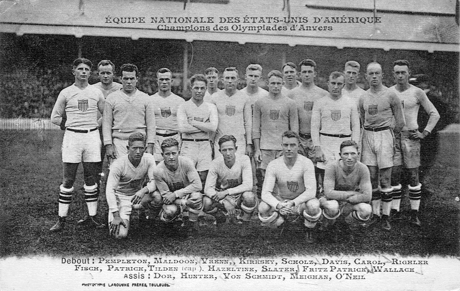 The United States rugby union team that played France on 10 October 1920 at Colombes Stadium.